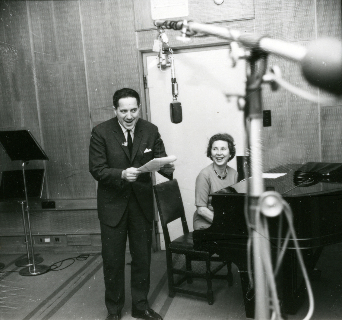 Image from National Archives of Norway's Flickr-Album [ "Riksarkivets julekalender 2011/National Archives advent calendar 2011 " ] (all images marked with "No known copyright restrictions")